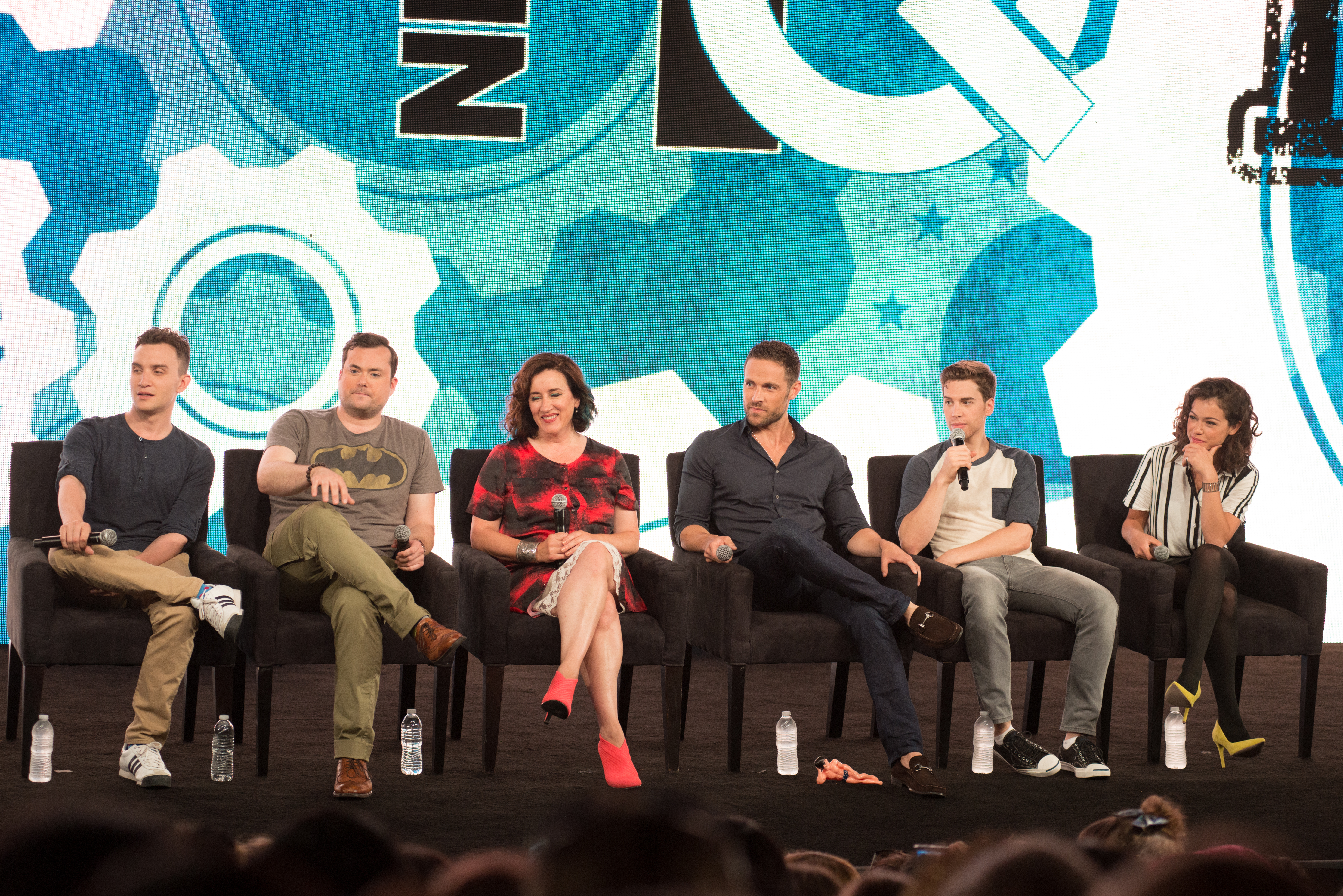 Orphan Black cast members in 2014: Ari Millen, Kristian Bruun, Maria Doyle Kennedy, Dylan Bruce, Jordan Gavaris and Tatiana Maslany